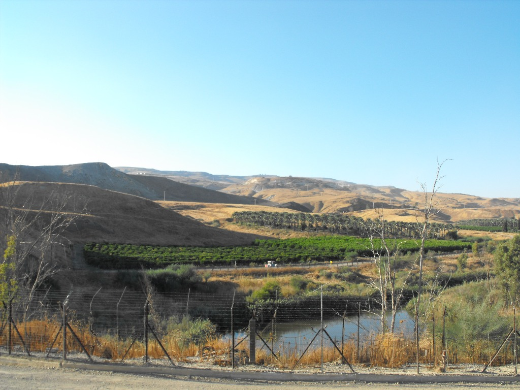 Geography of Israel